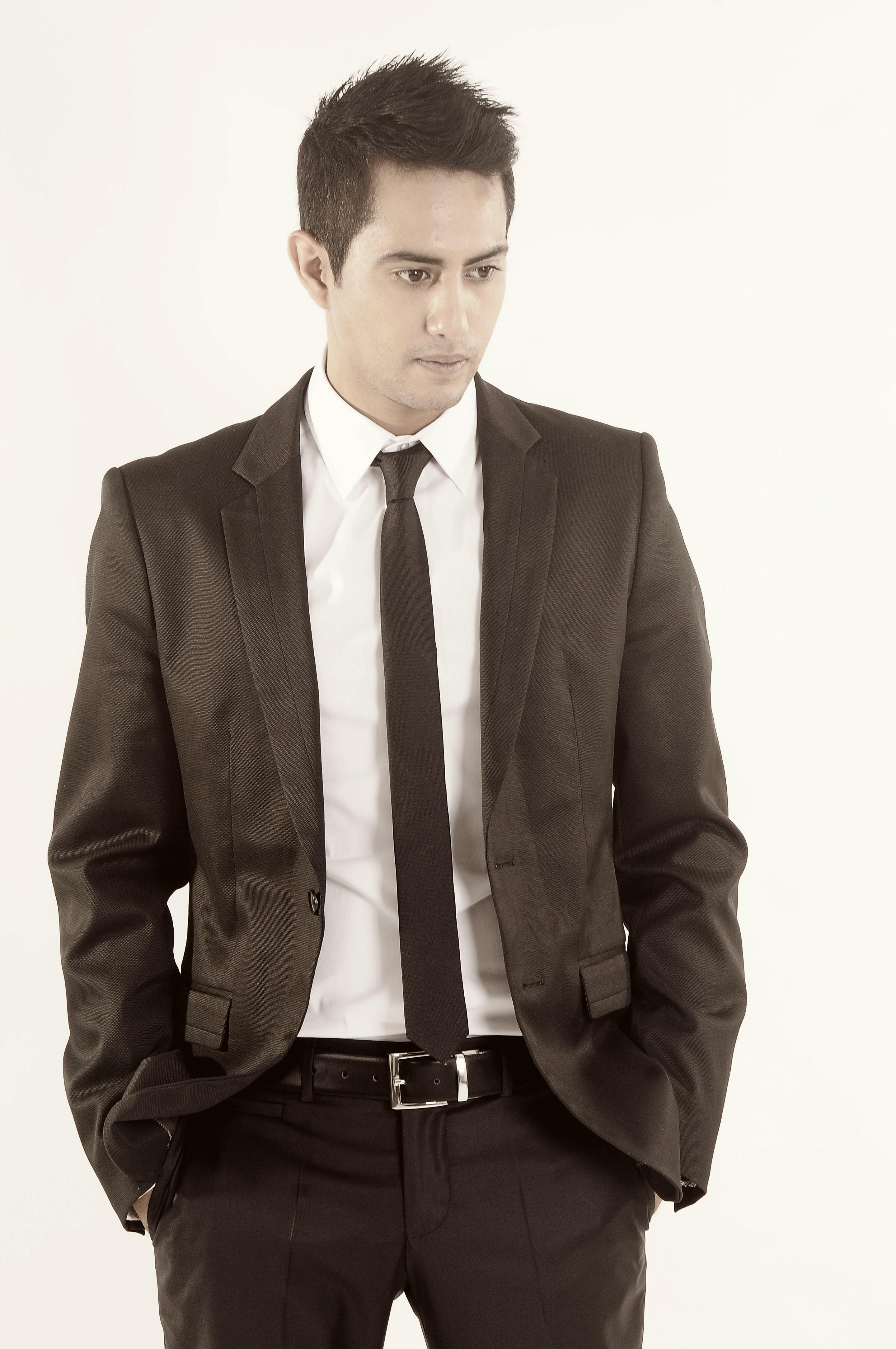 גל סינואני